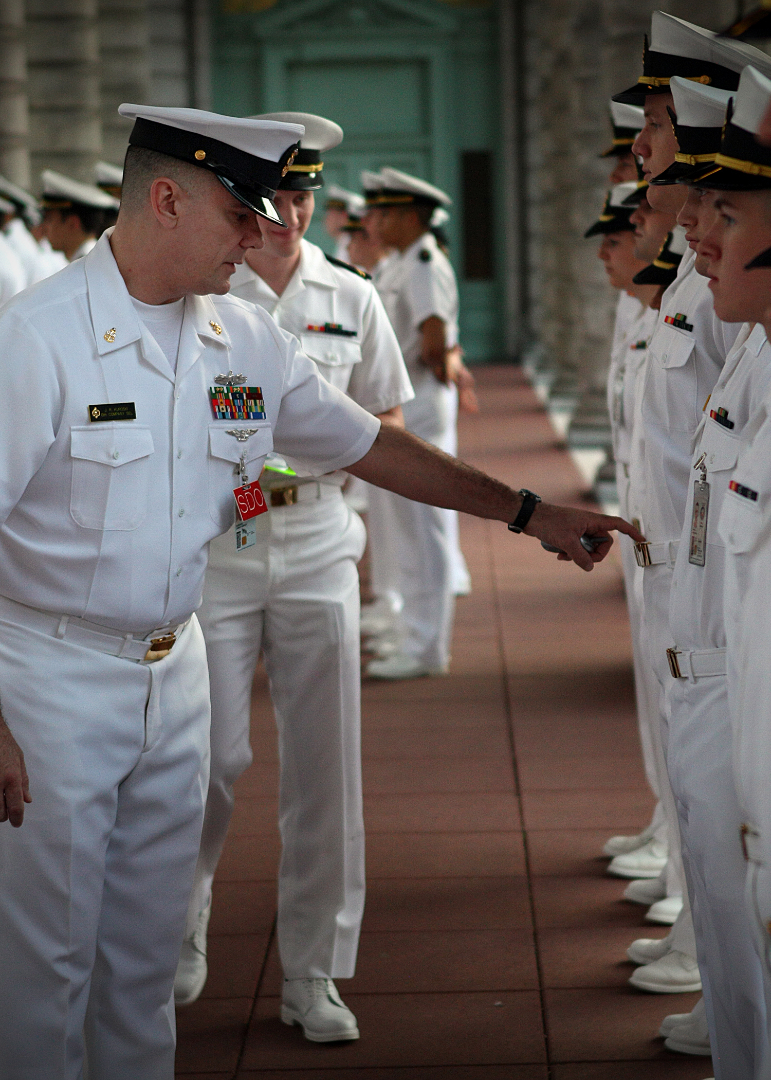 ANNAPOLIS, Md. (April 6, 2010) Senior Chief Quartermaster James Kuroski inspects U.S. Naval Academy midshipman during a brigade summer whites uniform inspection. Academy personnel transitioned to summer uniforms on April 5. (U.S. Navy photo by Chief Mass Communication Specialist Dennis Herring/Released)